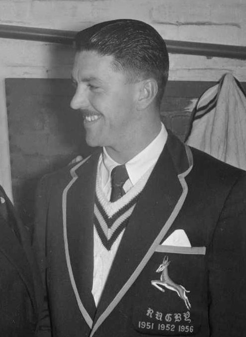 Stephanus Sebastian Viviers (Springbok captain) shaking hands with another player after 2nd rugby test against All Blacks in Wellington